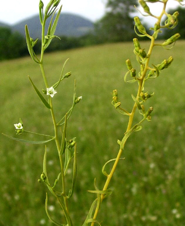 Thesium pyrenaicum